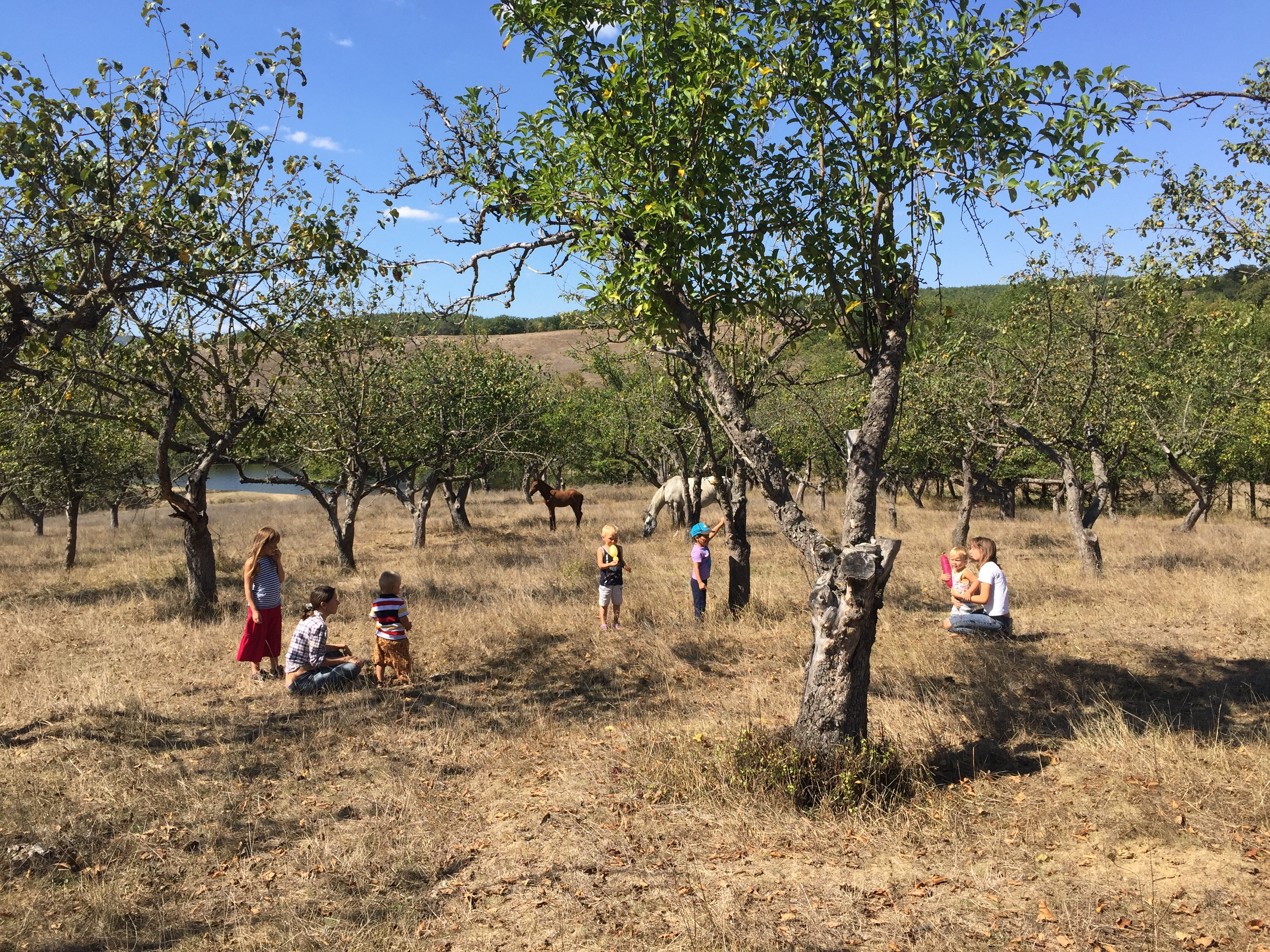 Communicating to wild horses. Children having fun in the open air kindergarten Solnechnosadik, in Crimea